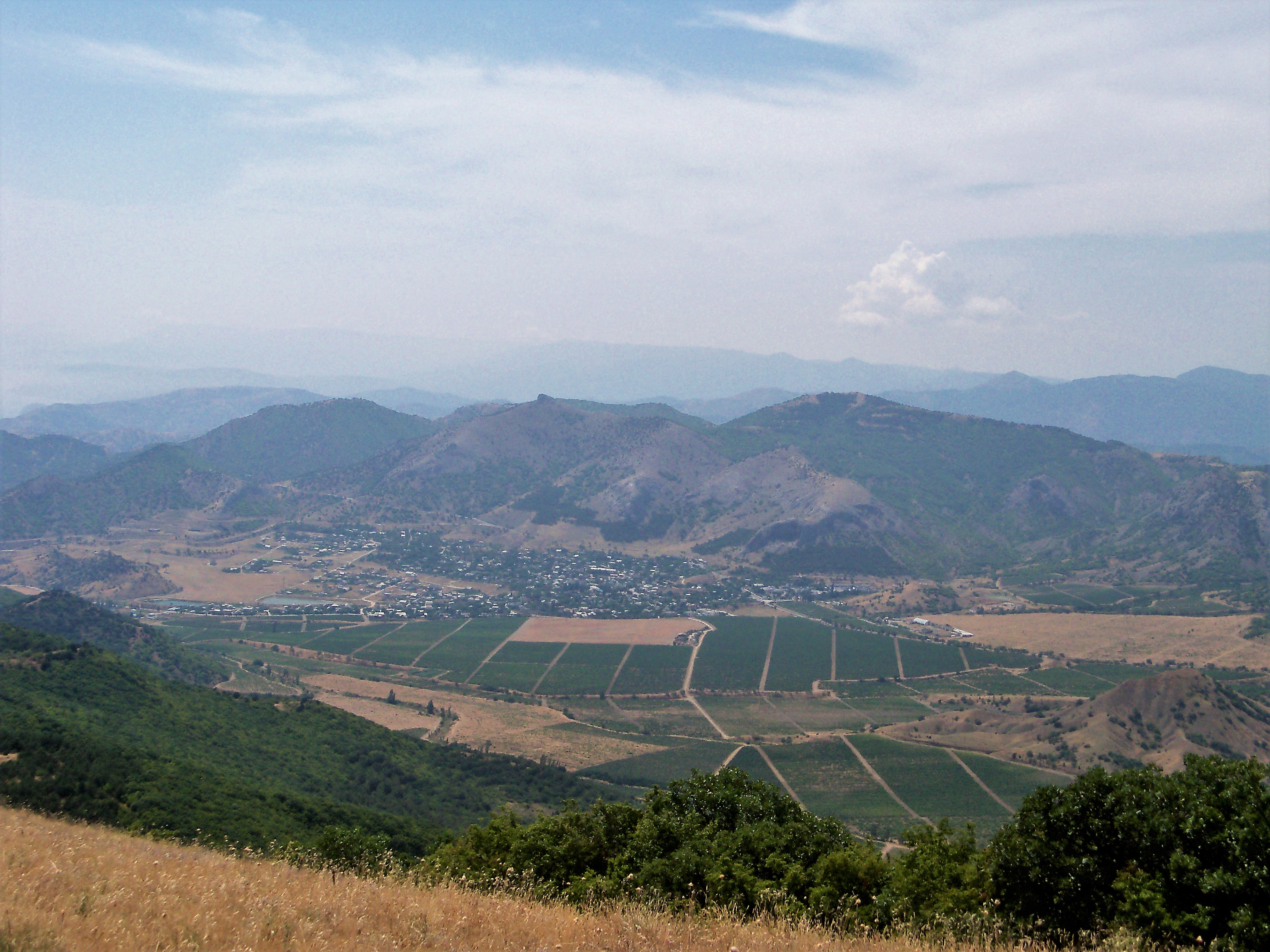 Village Vesyoloe, Urban District Sudak Republic of Crimea.